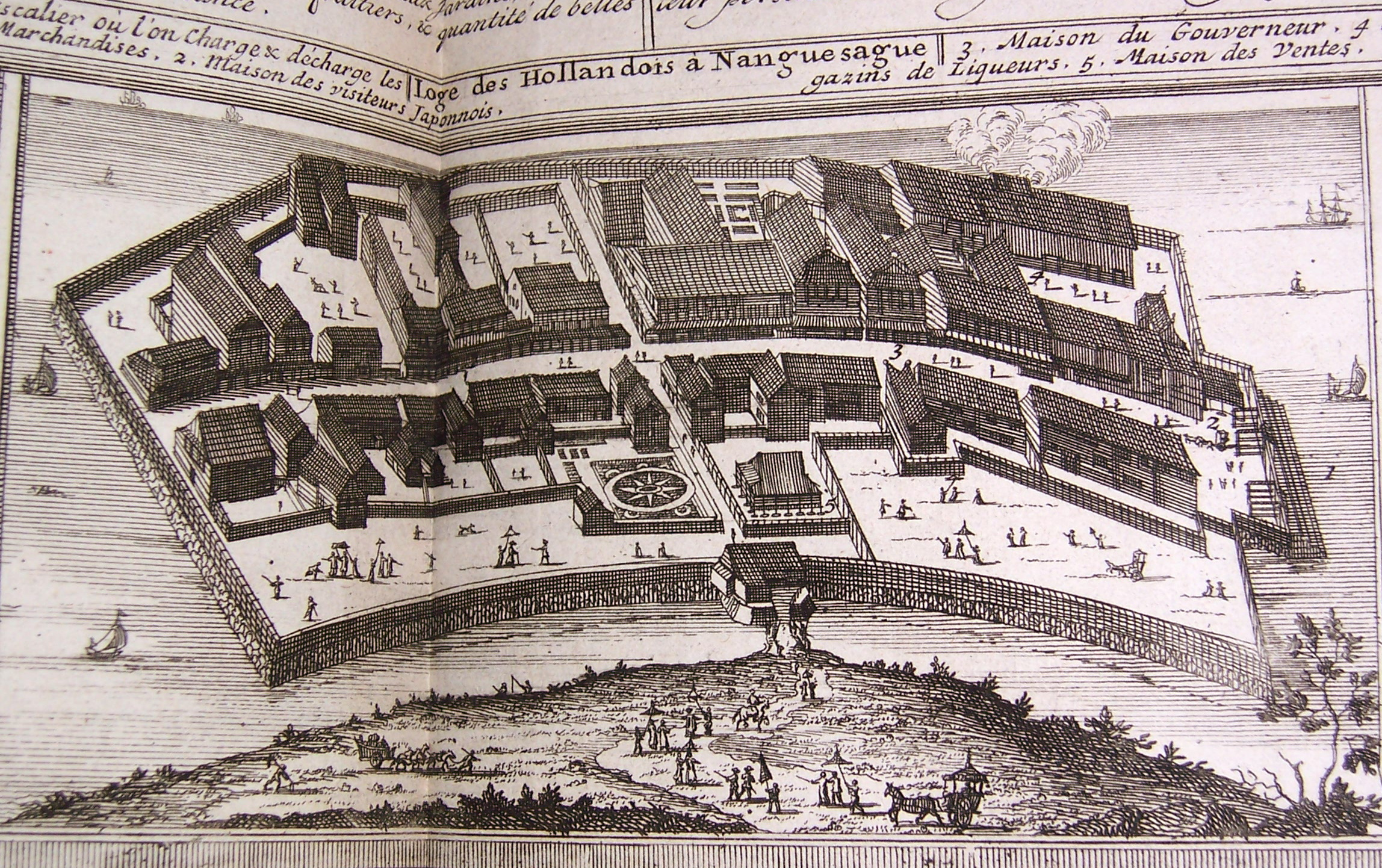 Detailed map of Dejima (Deshima) island at Nagasaki, where the Dutch East India had its factory. There were no defensive works and only a modest outer wall was allowed. From Henri Chatelain's Atlas historique, Paris (c. 1705-1739). 1) Landing staircase for merchandise; 2) House for Japanese visitors; 3) House of the governor (the factory's chief factor); 4) Liquor warehouse (the steam coming out of the roof may indicate a distillery); 5) Trading center.